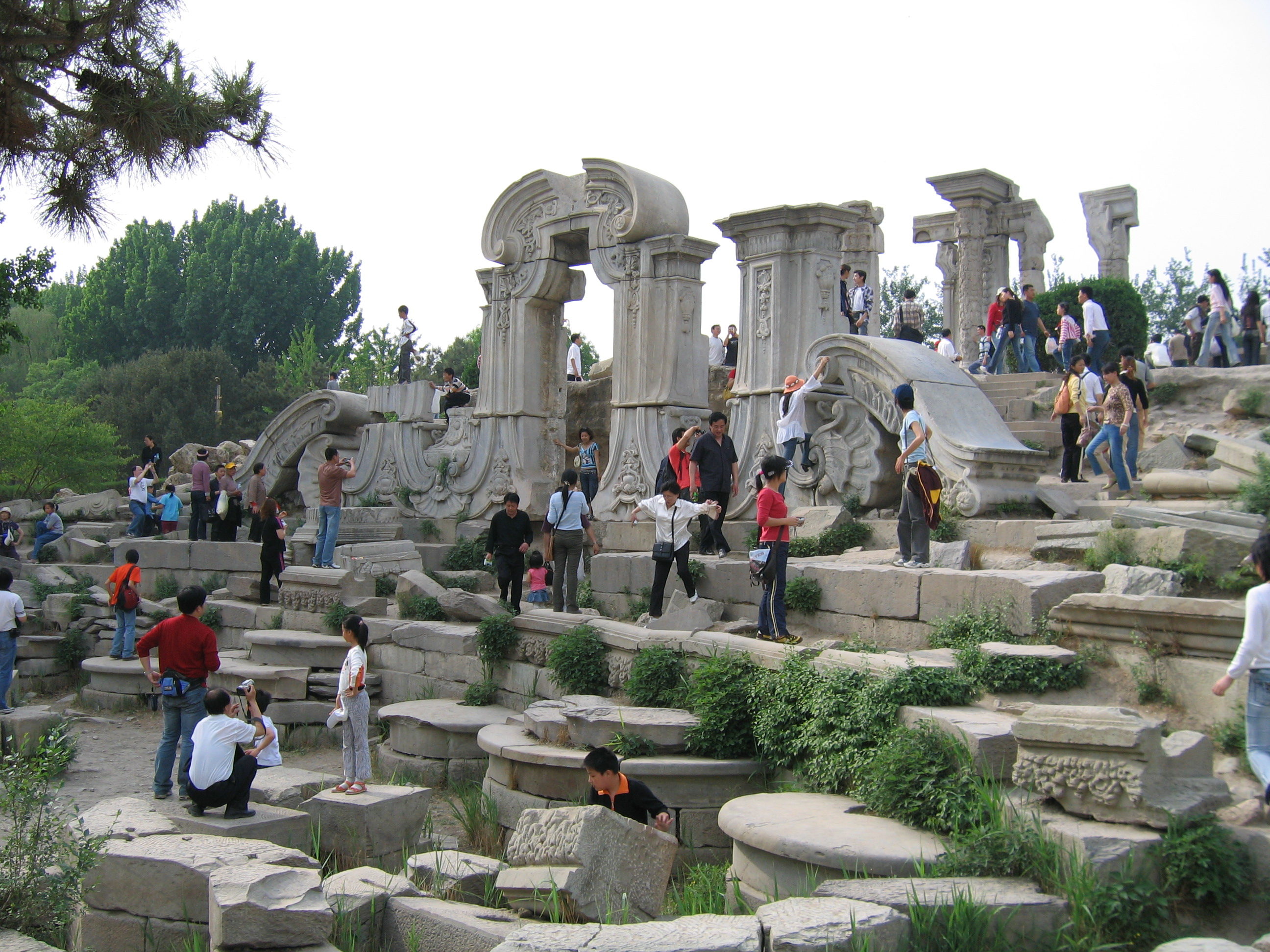 Ruins of Xiyang Lou (Western mansions) French Pavillon — at the Yunamingyuan (Old Summer Palace). Occidental style pavillon ruins, with people wandering, May 2006 Golden week.